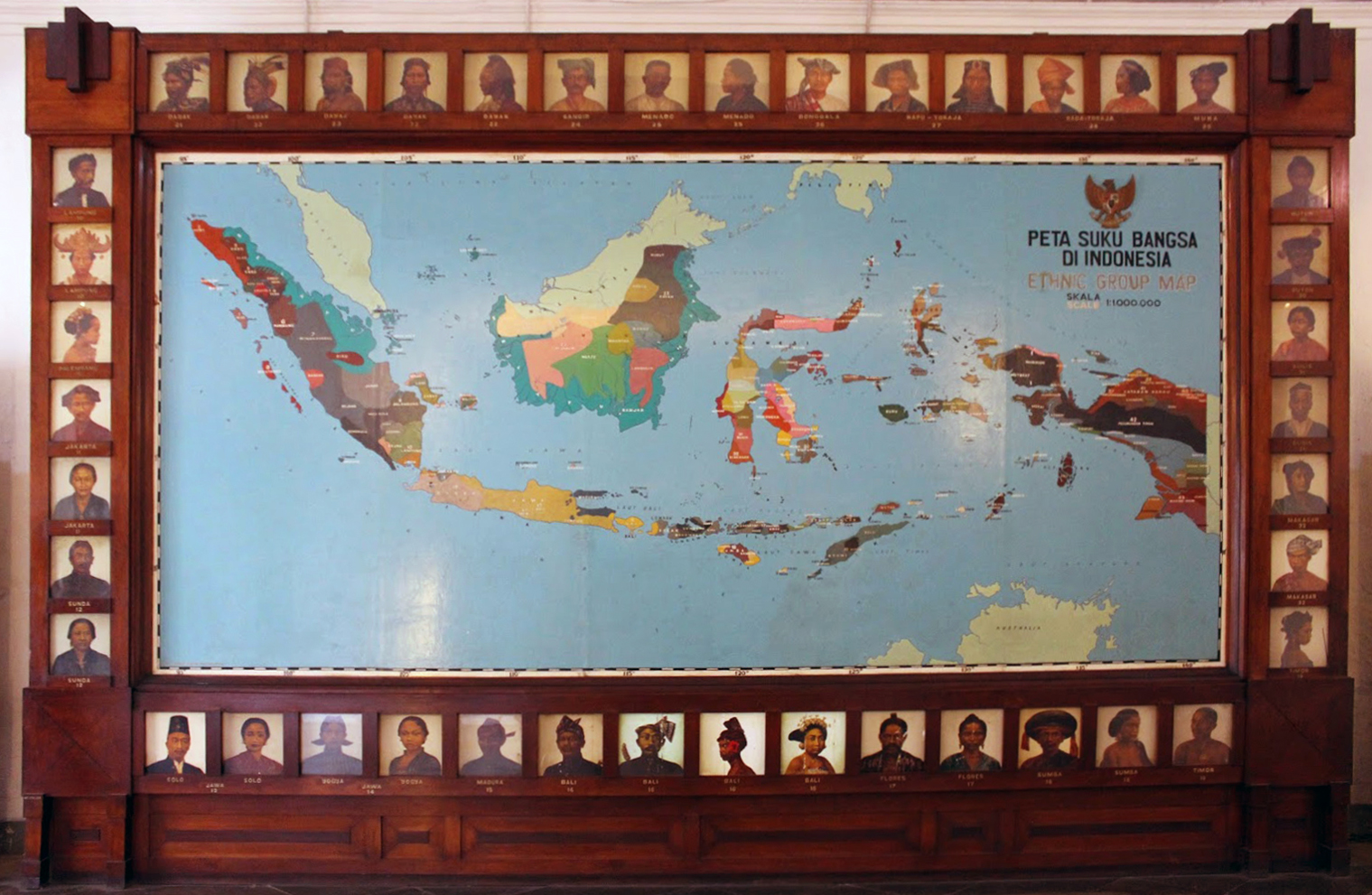 A large ethnic map displayed in the ethnology room of the National Museum of Indonesia, Jakarta. The portraits of native Indonesian ethnicities are displayed surrounding the map.